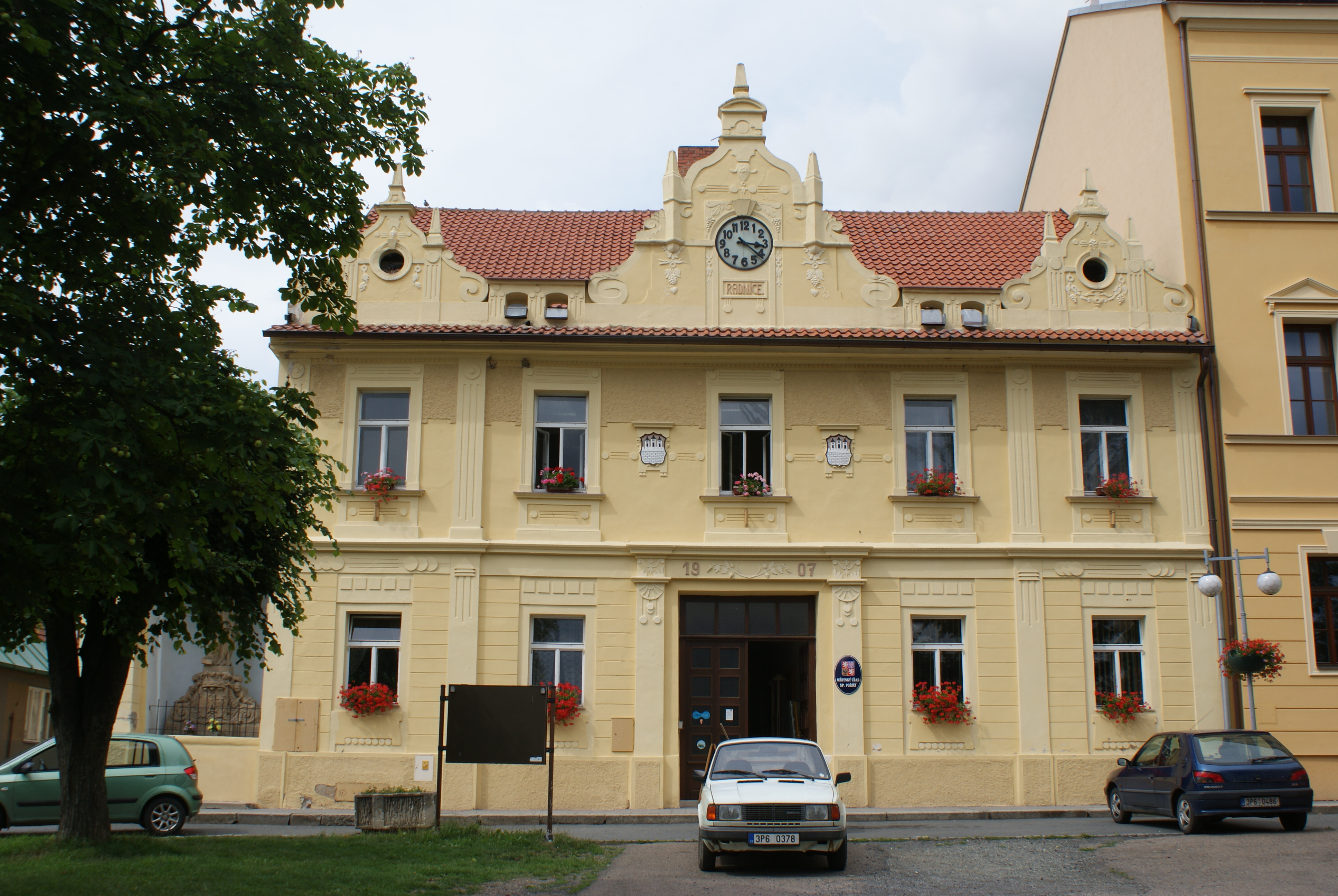 Spálené Poříčí, a town in Plzeň-South District, Czech Rep., the town-hall.